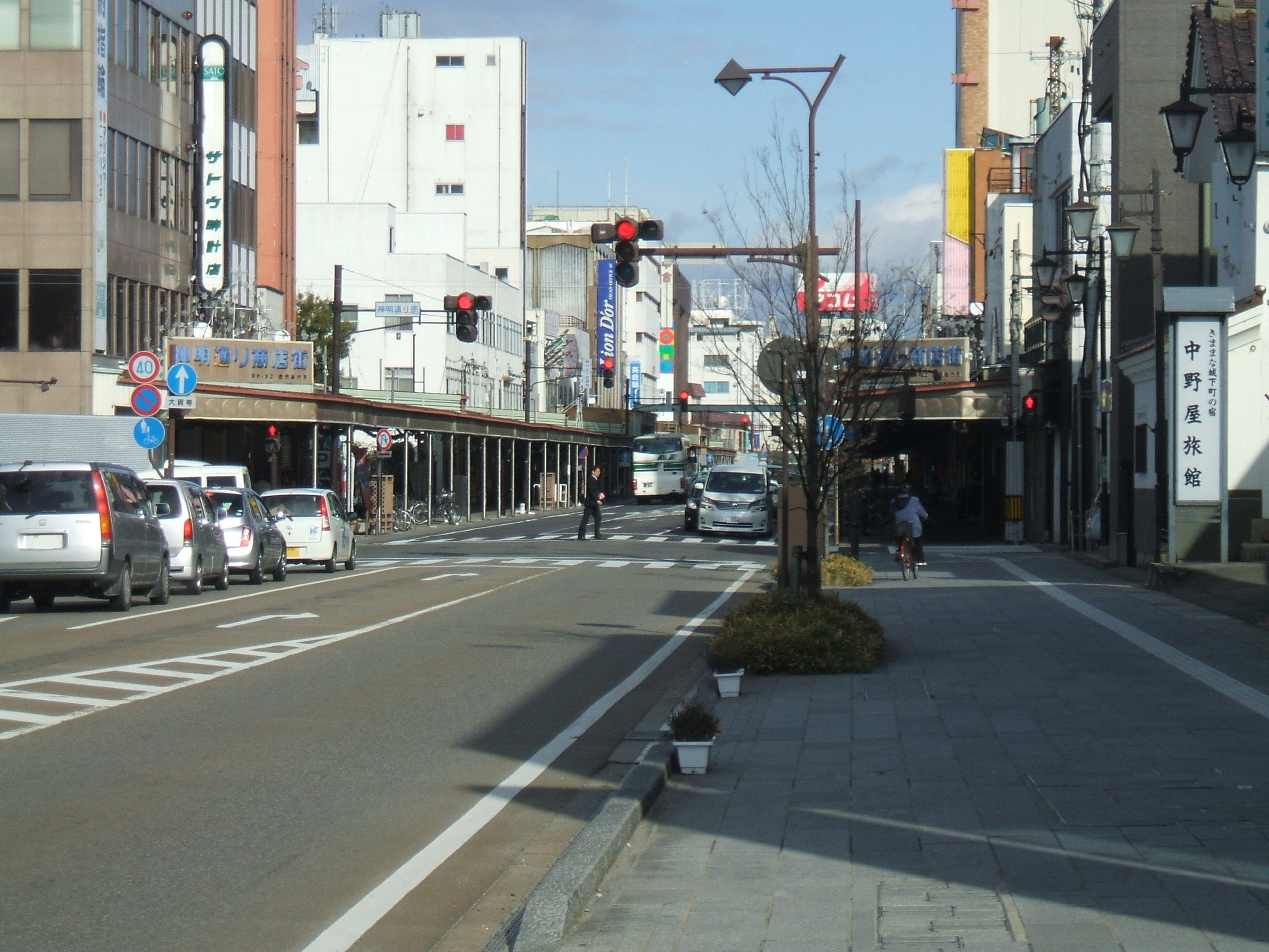 This is a landscape of Tyuodori-Minami Crossing. It was taken at Aizuwakamatsu, Fukushima, Japan.